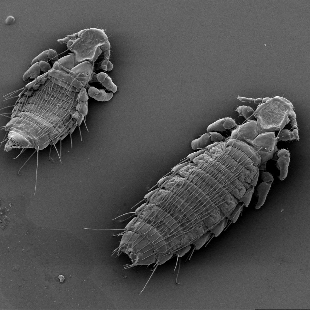 Neohaematopinus sciuri, male (left), female (right), dorsal view, 50x